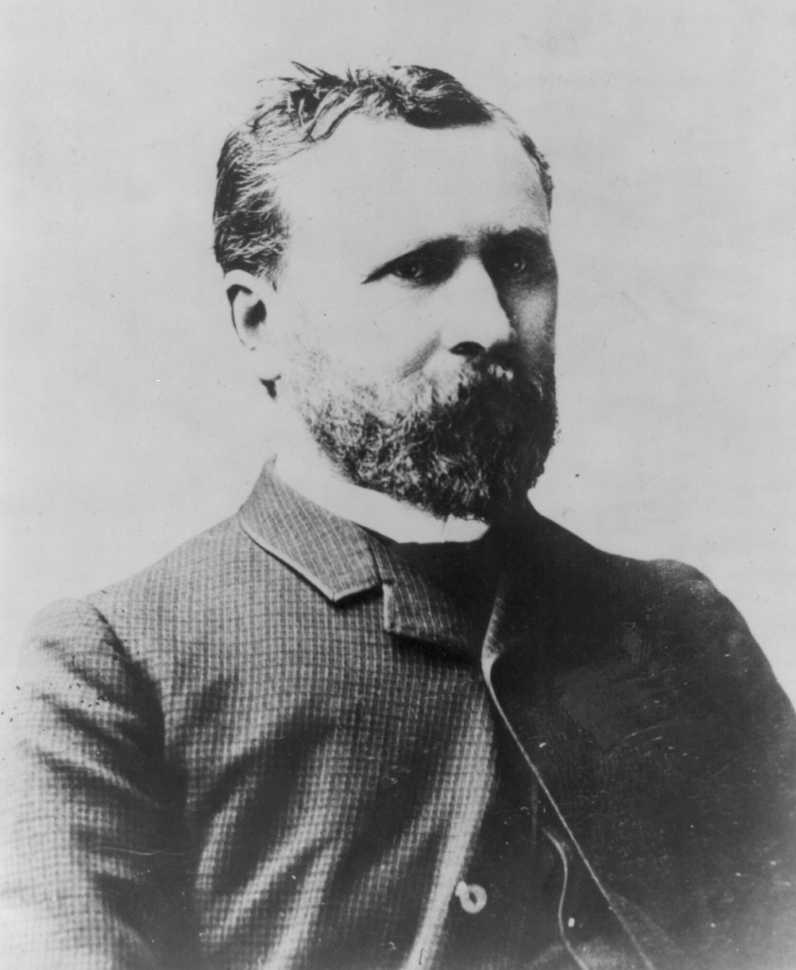 Whiteside Godfrey Hunter, from montage of individual bust portraits of thirteen congressmen comprising the Kentucky delegation of the 50th Congress.